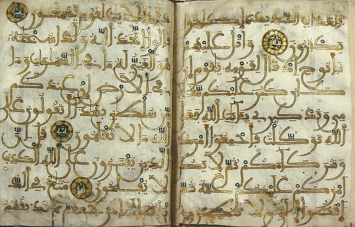 Luxury Quran from Morocco or Analusia with gold leaf calligraphy, Keir Collection